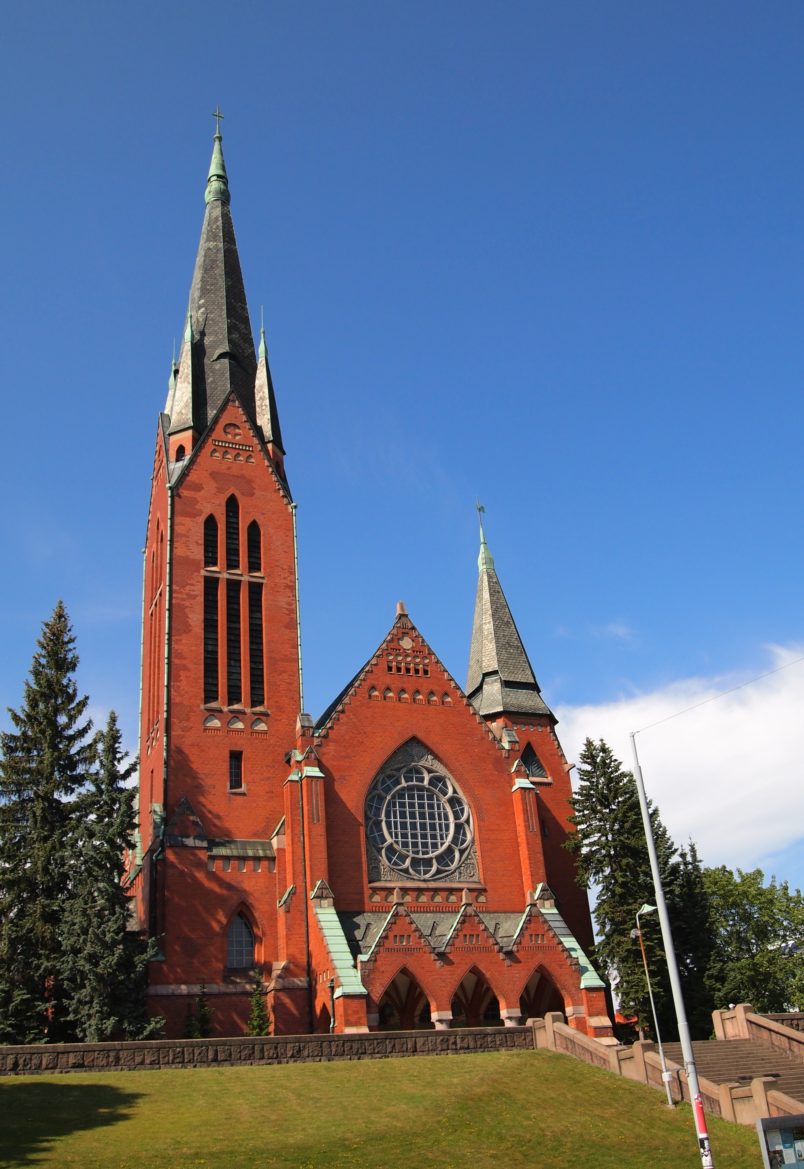 St Michael's Church in Turku. This photograph was taken with an Olympus E-PL1